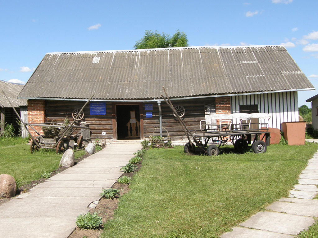 Museum in the Mosar village of Belarus